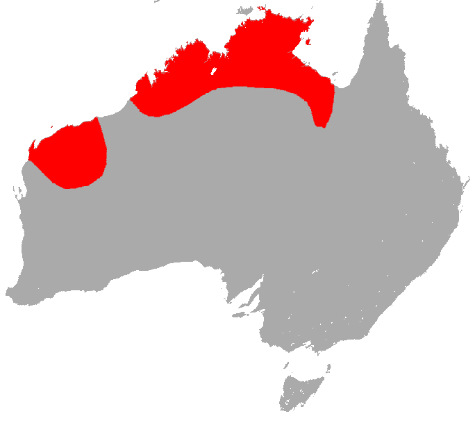 Sharp-Nosed Tomb Bat (Taphozous georgianus) range